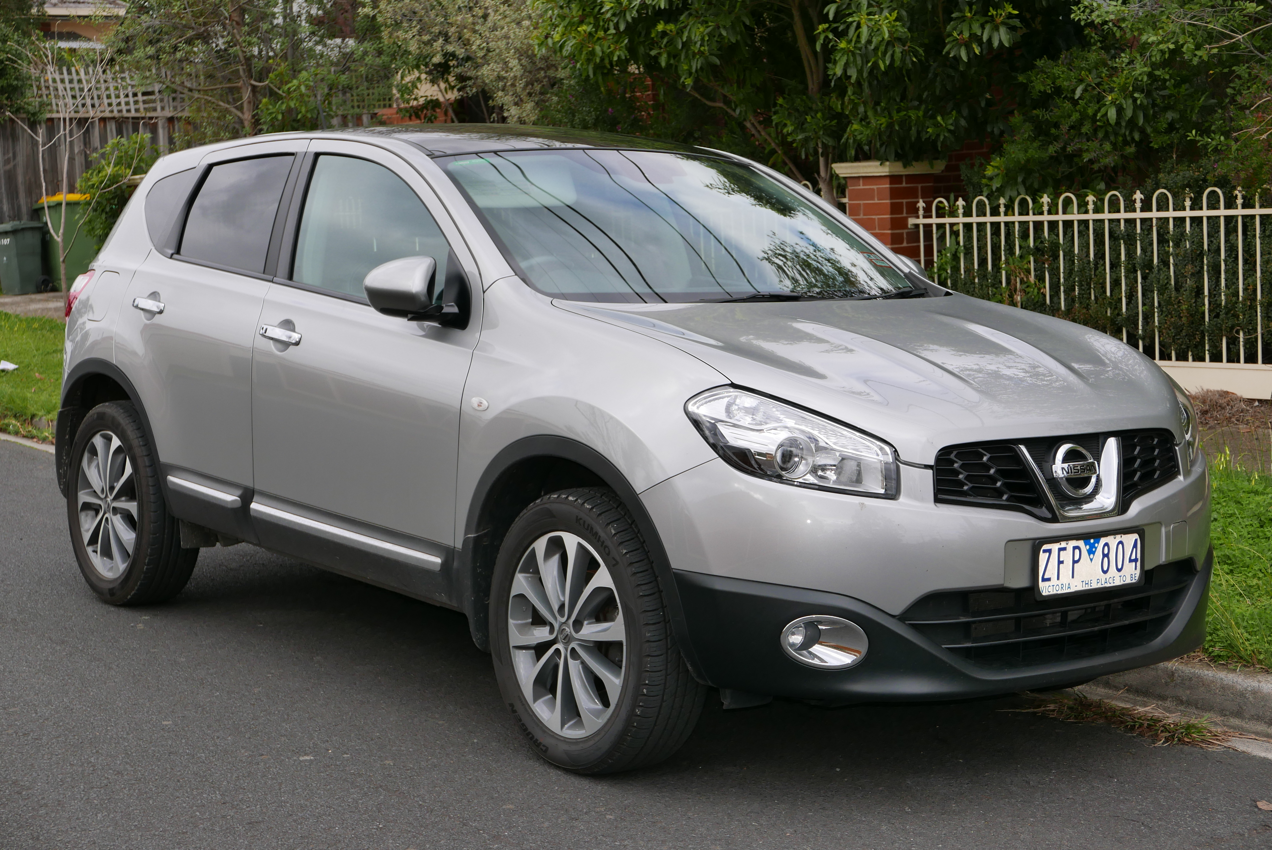 2012 Nissan Dualis (J10 Series 3 MY12) Ti wagon. Photographed in Ivanhoe, Victoria, Australia. Vehicle registration enquiry resultsJurisdictionVictoriaRegistrationZFP804Chassis codeSJNFBAJ10A2558910Engine codeMR20157330WCompliance date2012-08Year of manufacture2012